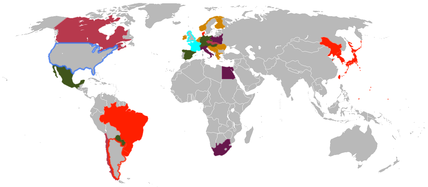 Status of countries with respect to 1931 Davis Cup in focus of the round they reached: Regional finals elimination Quarterfinal round elimination Second round elimination First round elimination Americas Inter-Zonal elimination Semifinal elimination Inter-Zonal Zone elimination 1931 champion 1931 runner-up